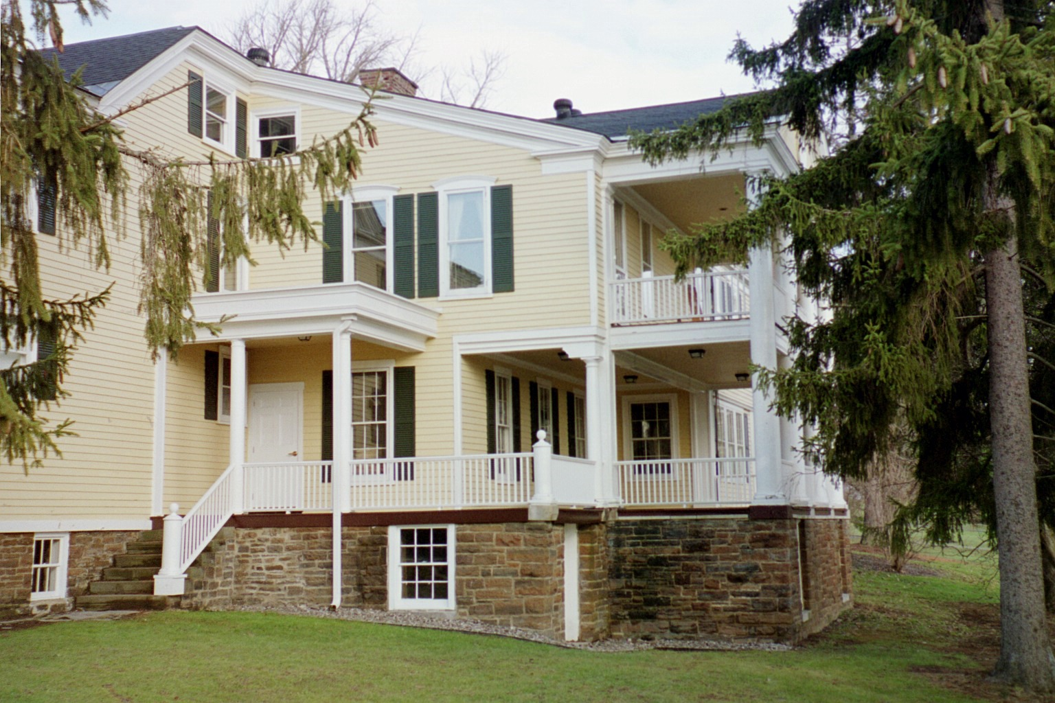 Elihu Root House, Clinton, NY